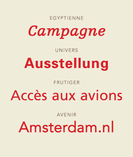 Specimen of types by the typeface designer Adrian Frutiger. 14.02.07. Jim Hood